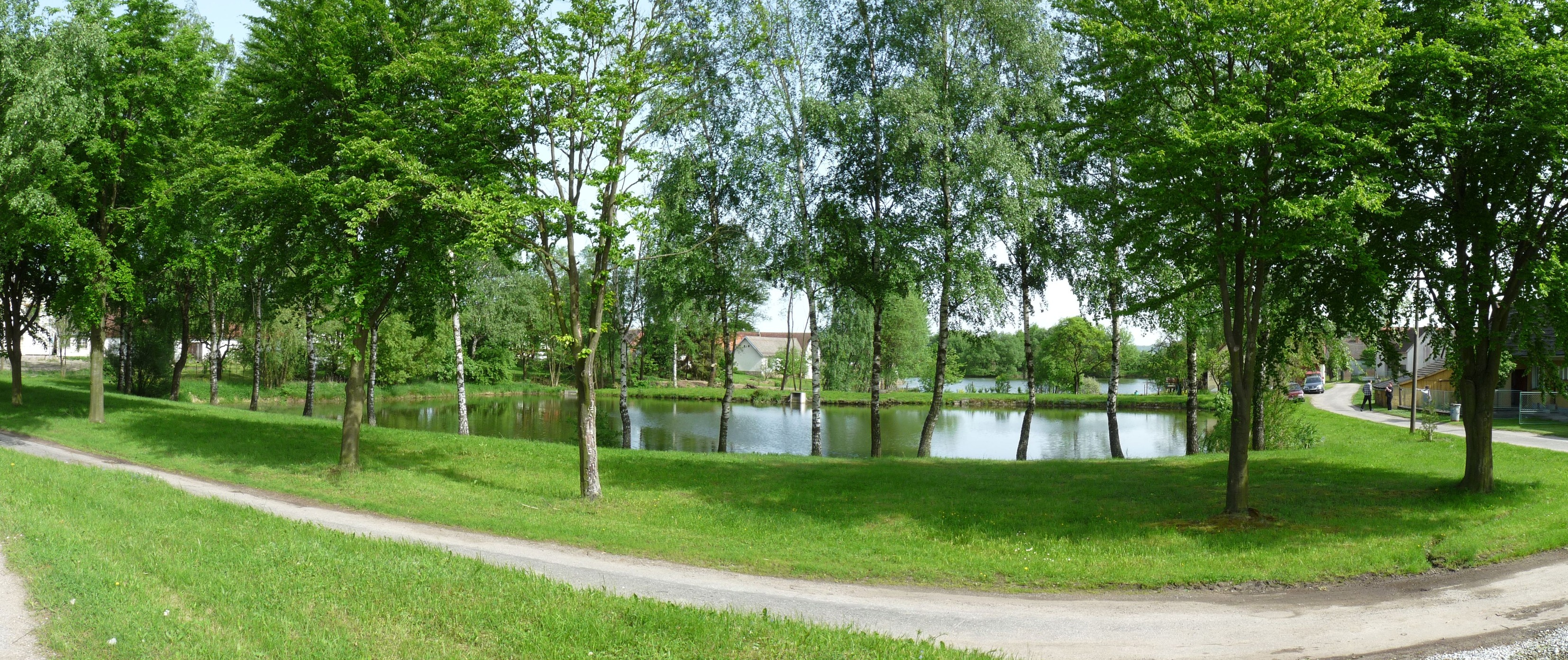 Pond in the village of Březina, Jindřichův Hradec District, South Bohemian Region, Czech Republic.